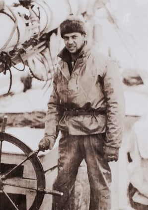 Photo of assistant surveyor John Alexander Pope (of Detroit, Michigan) (4 August 1906 – 18 September 1982) who was a member of the Morrissey Expedition (also known as the Putnam-Baffin Island Expedition) engaged in the geographical exploration of Baffin Island during the Summer of 1927. Photo included in p. 14 of Scrapbook from Morrissey Expedition.Mr. Pope later worked at the Freer Gallery of Art in Washington, D.C. and was appointed director in 1962.